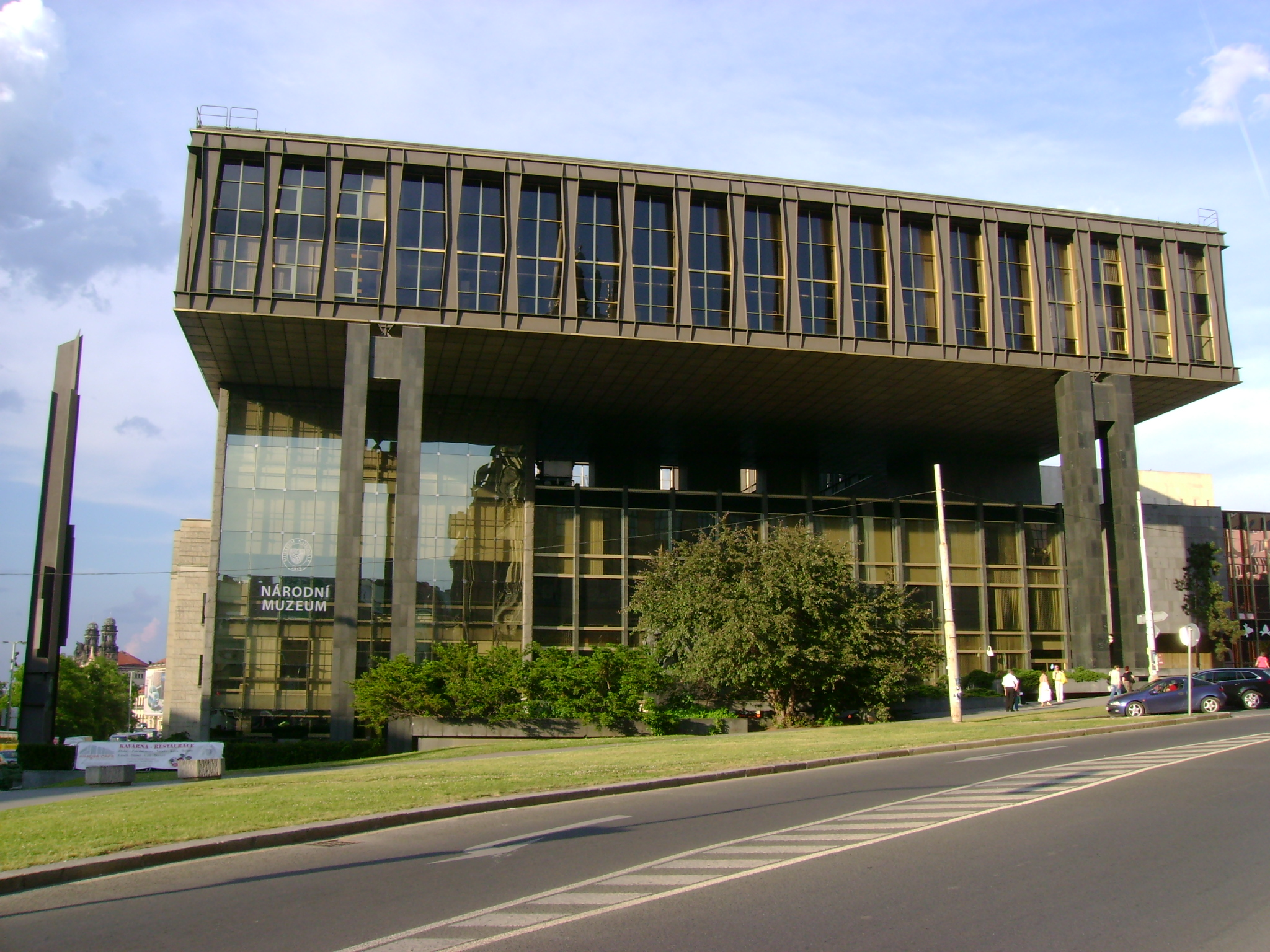 A new building of The National museum in Prague, Czech Republic. It is building of former Federal Assembly of Czechoslovakia.